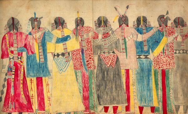 This is an untitled ledger drawing in pencil and colored pencil by Lakota artist and leader Black Hawk, born ca. 1832. This work also appears in Janet Catherine Berlo's Spirit Beings and Sun Dancers: Black Hawk's Vision of the Lakota World (New York, NY: George Braziller in association with the New York State Historical Association, 2000)